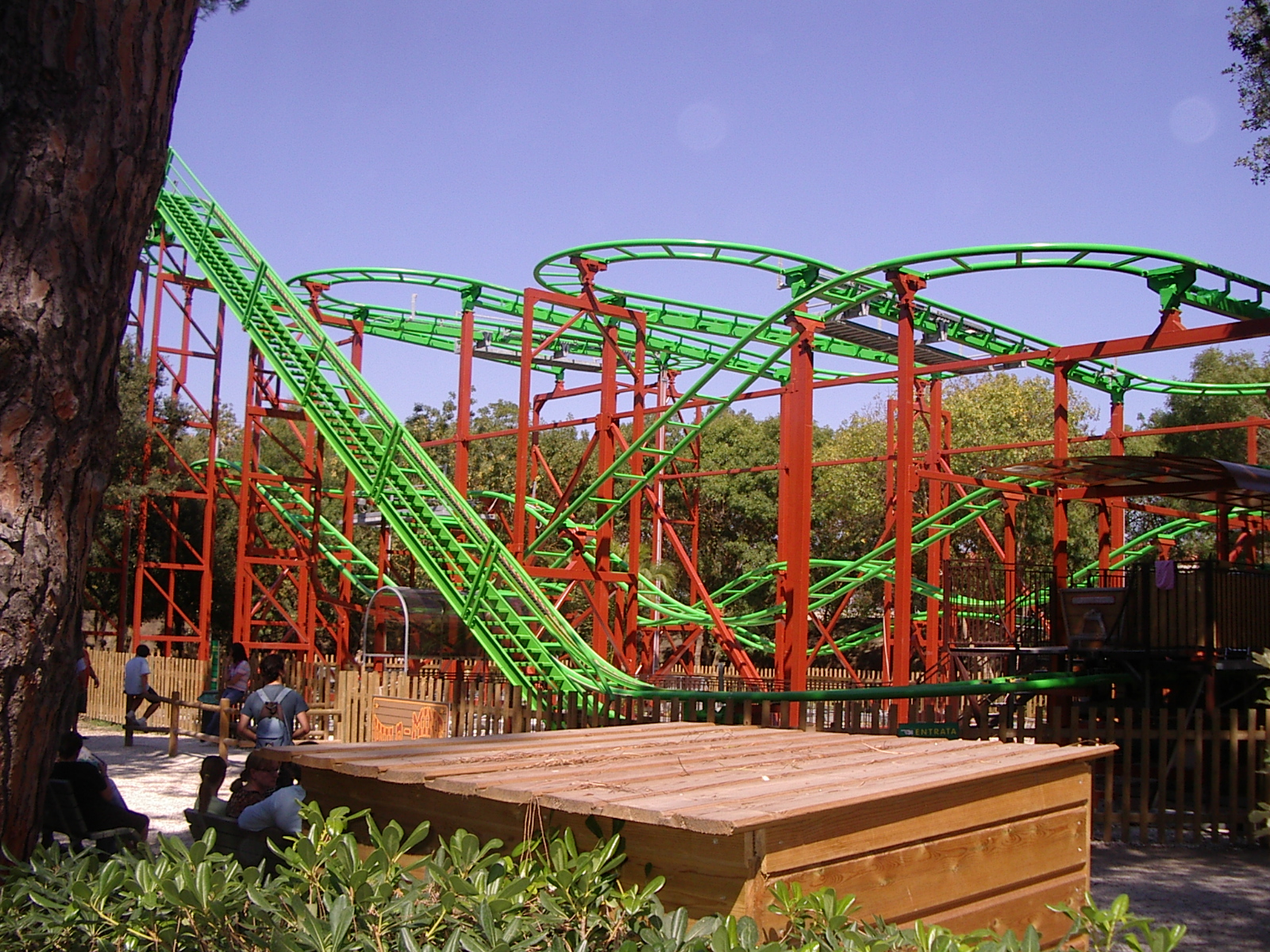 The Wild Mine how appears today.